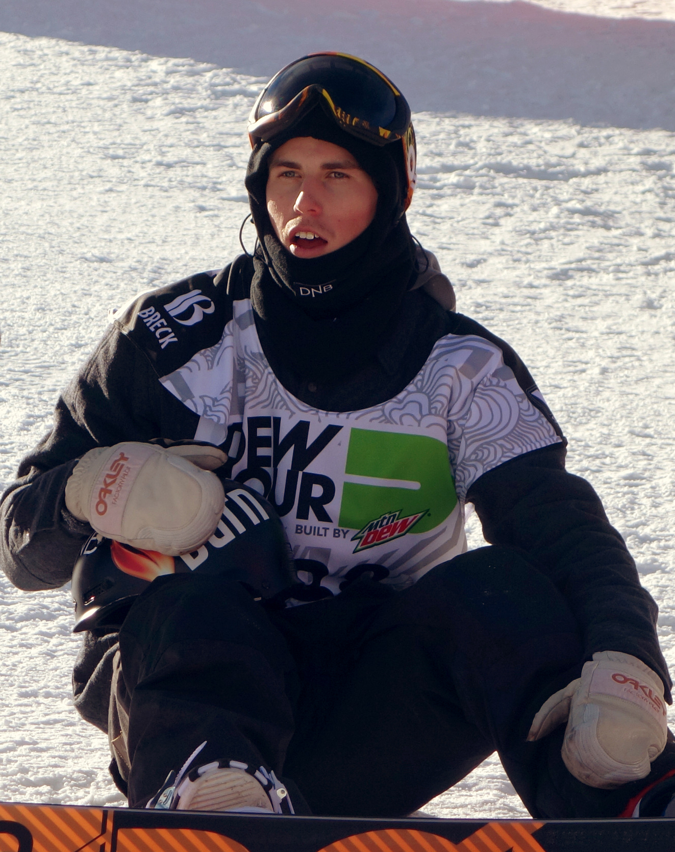 Norwegian snowboarder Ståle Sandbech at the Dew Tour 2013